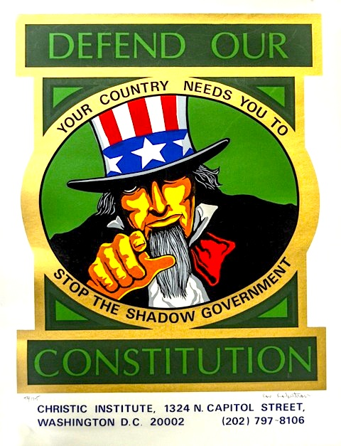 Old poster from the Christic Institute, "defend our constitution"